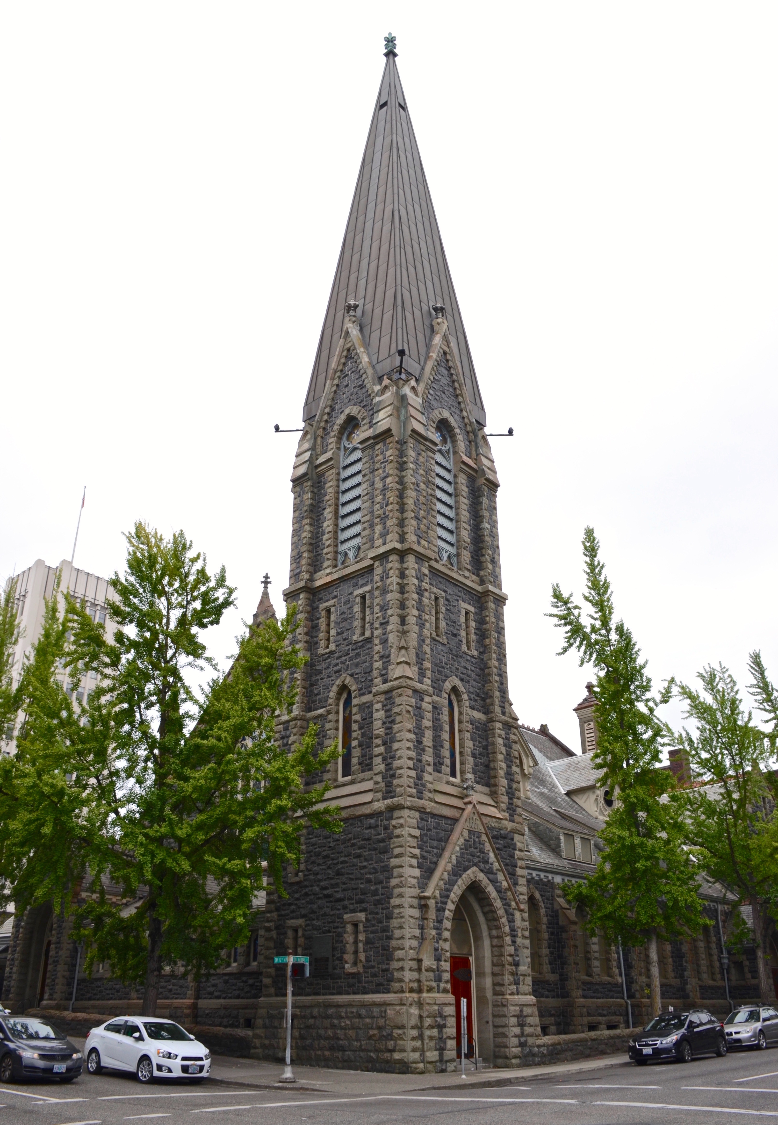 The First Presbyterian Church of Portland, Oregon, viewed from the east-northeast, across the intersection of SW 12th Avenue and Alder Street. Completed in 1890, the building is listed on the U.S. National Register of Historic Places.